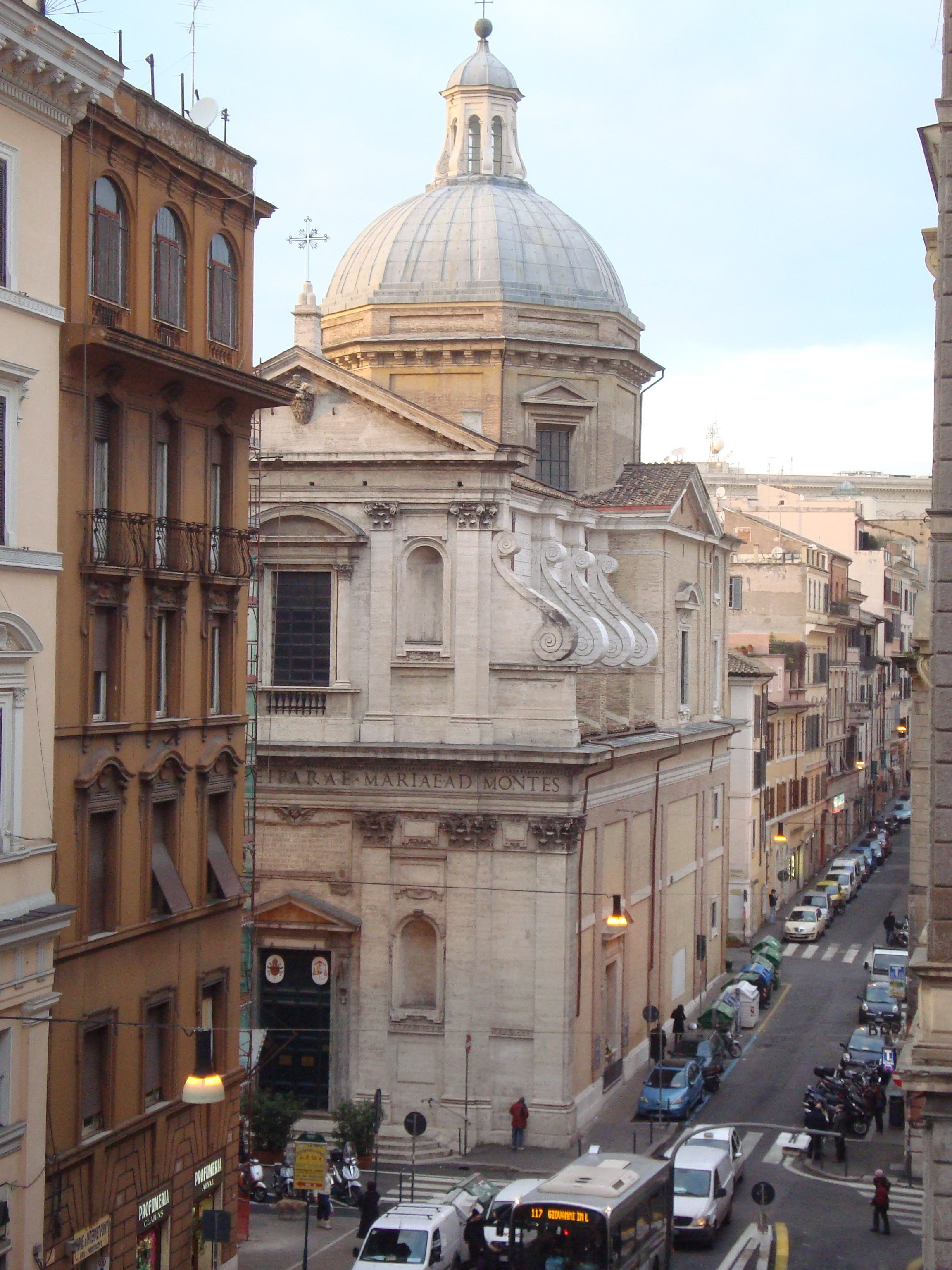 Church Santa Maria ai Monti in Rome